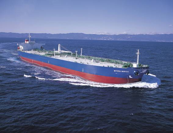 The Atlas Maritime Ltd.'s 237.7m Mitera Marigo under way. The Mitera Marigo is a 105,495 DWT Aframax oil tanker built by Sumitomo Heavy Industries in Japan. IMO Number: 9321976 MMSI Number: 309185000 Callsign: C6VW3 Length: 238 m Beam: 42 m